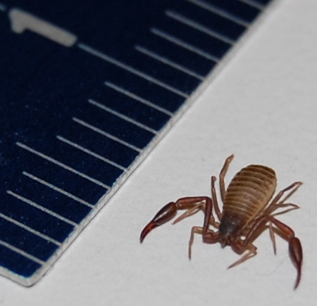 Chelifer cancroides (and metric ruler)